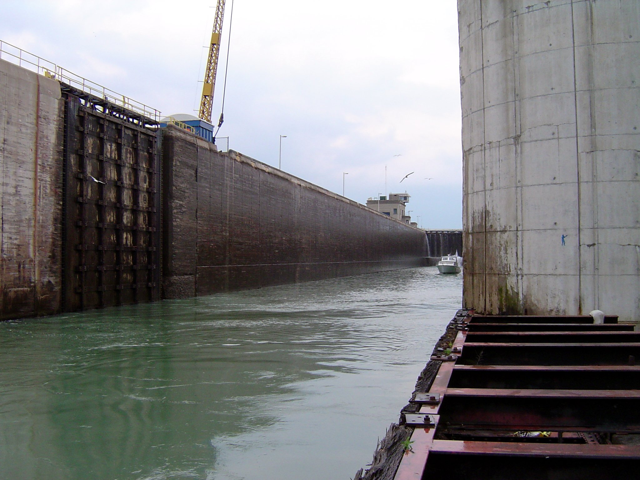 Lock 1 of the Welland Canal in St. Catharines/Port Weller. Photo taken in the summer of 2004. Source: Photo by me, User:Balcer.